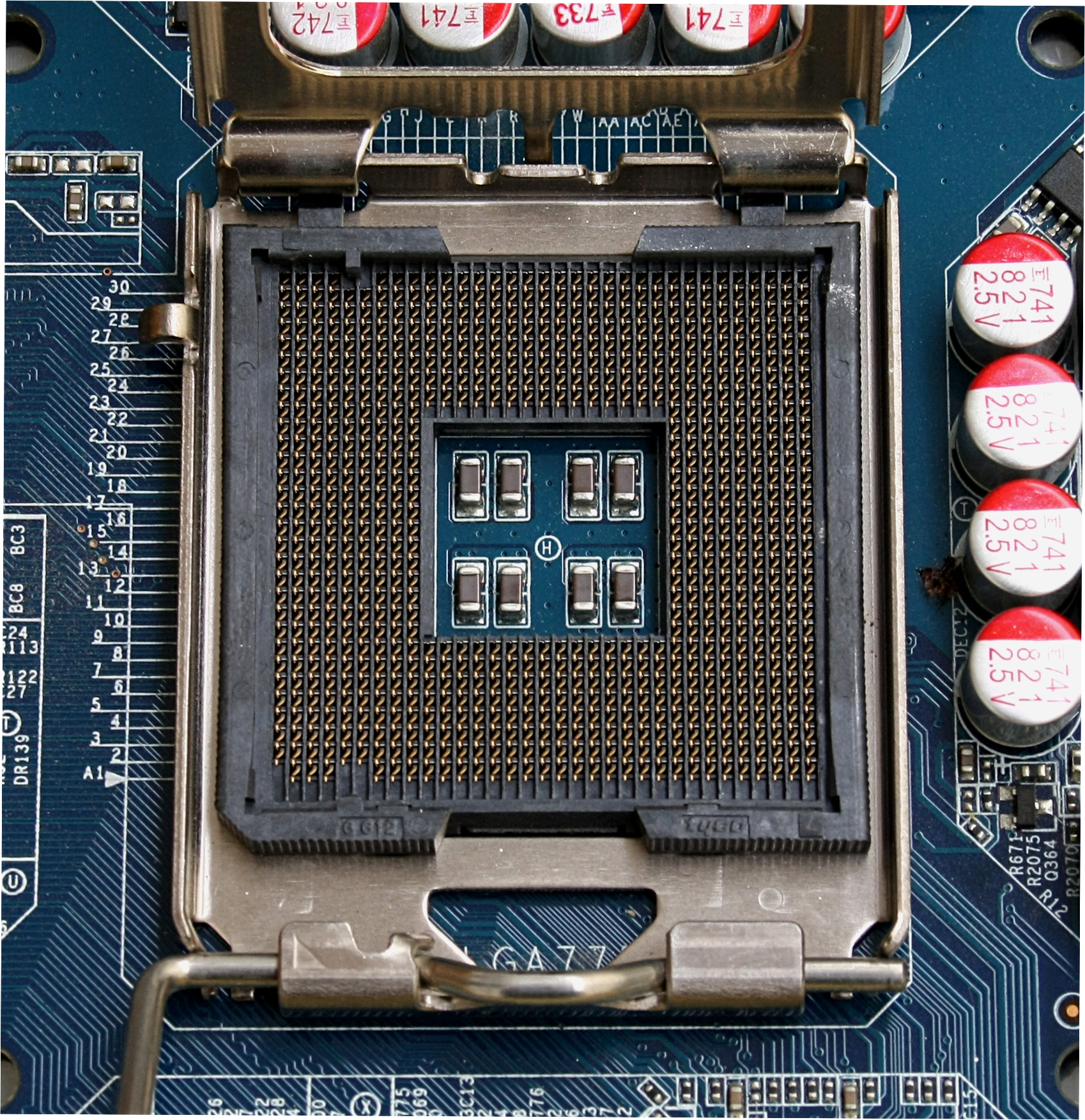 CPU Socket 775 oder T for Intel Core 2 Duo/Quad, Pentium 4, Pentium D or Celeron D.